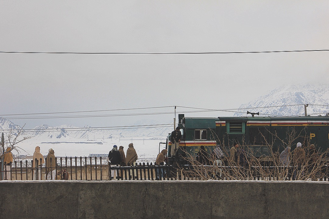 Balelei Railway Station, Quetta